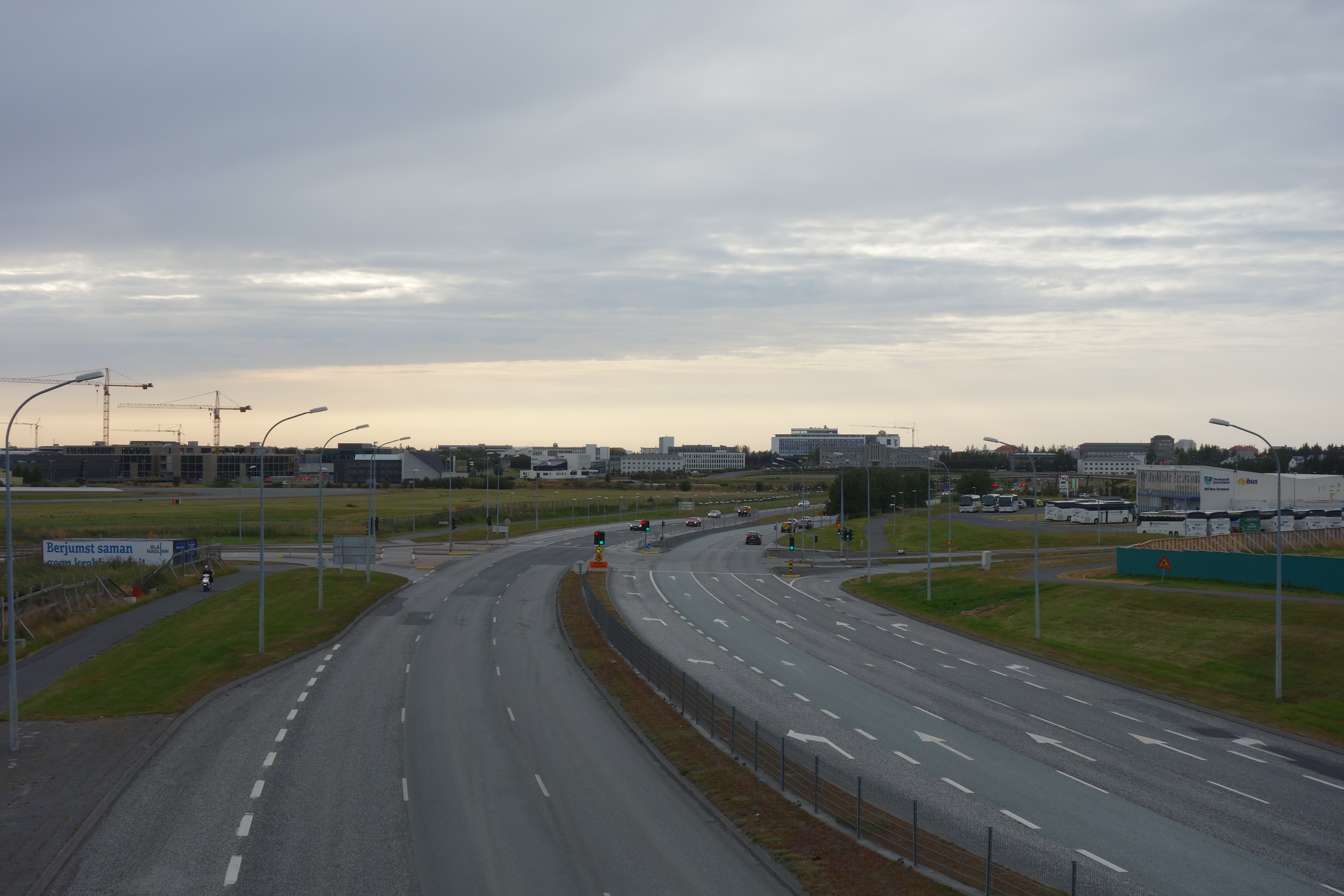 Hringbraut arterial road as seen from a pedestrian bridge.